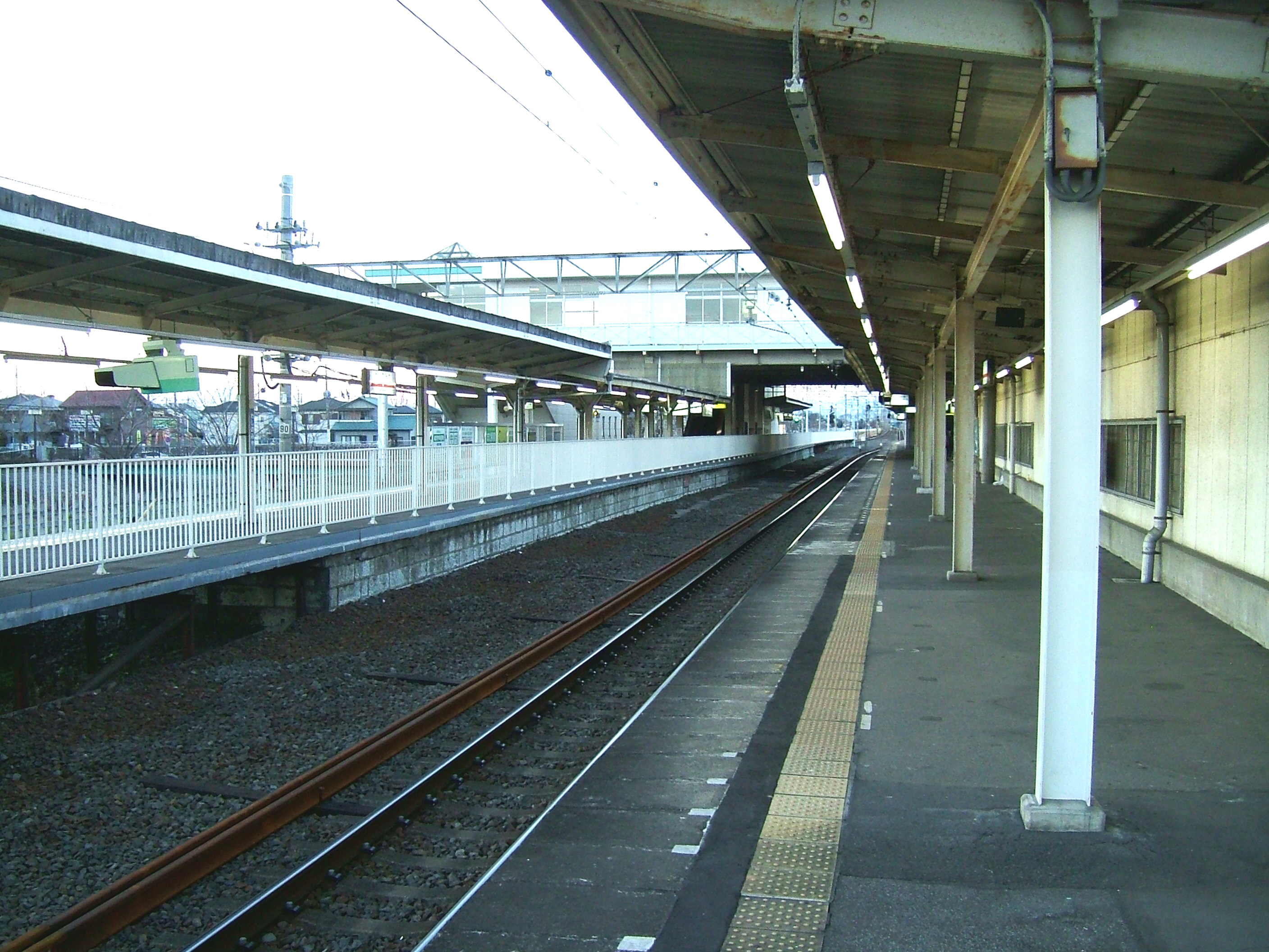 Washinomiya Station platform (Tobu Isesaki Line)